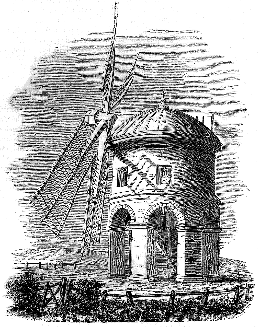 Chesterton Windmill, Warwickshire, England, from the "Penny Magazine".